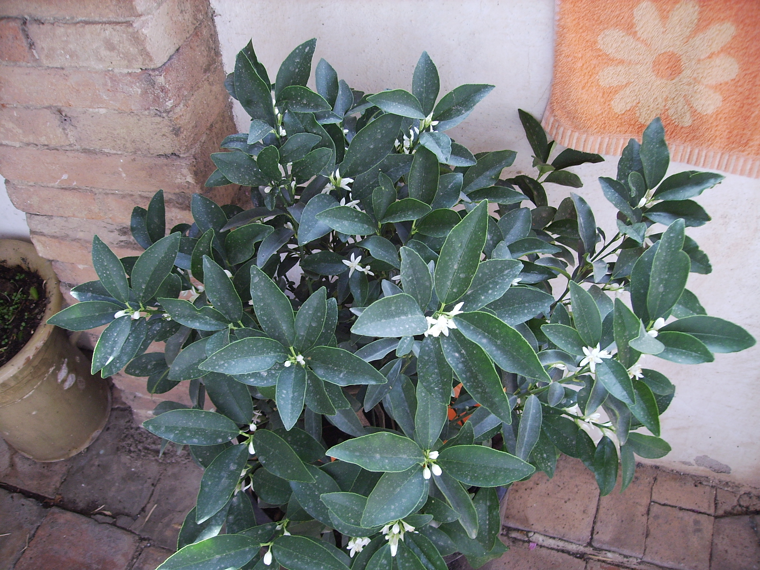 Foliage of Fortunella japonica, syn: Citrus japonica, the Kumquat. Image:Planta_kumquat_8_agost06_065.jpg My own work, Flowering Kumquat, Castelltallat